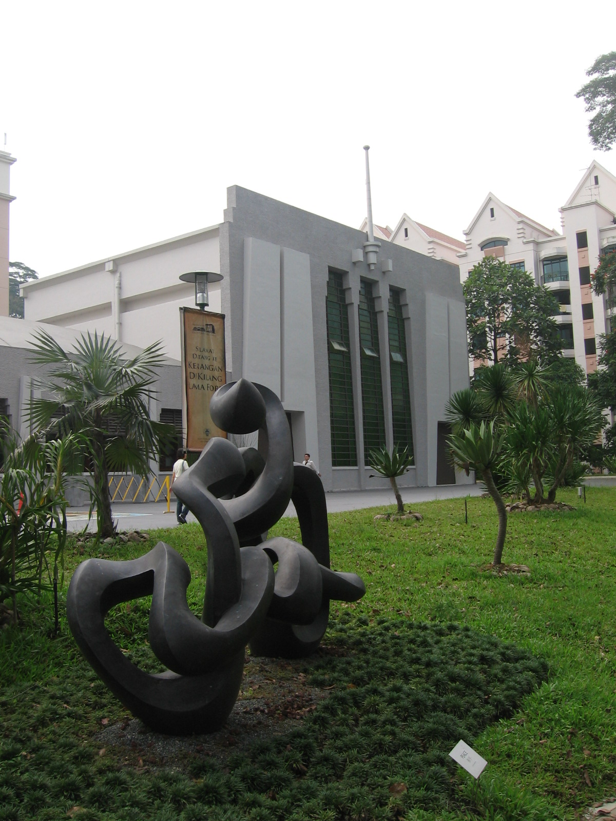 The sculpture Peace by Chua Boon Kee at the Old Ford Motor Factory, Singapore. It represents the Chinese term for "peace", 和平 (hépíng), in a calligraphic script.